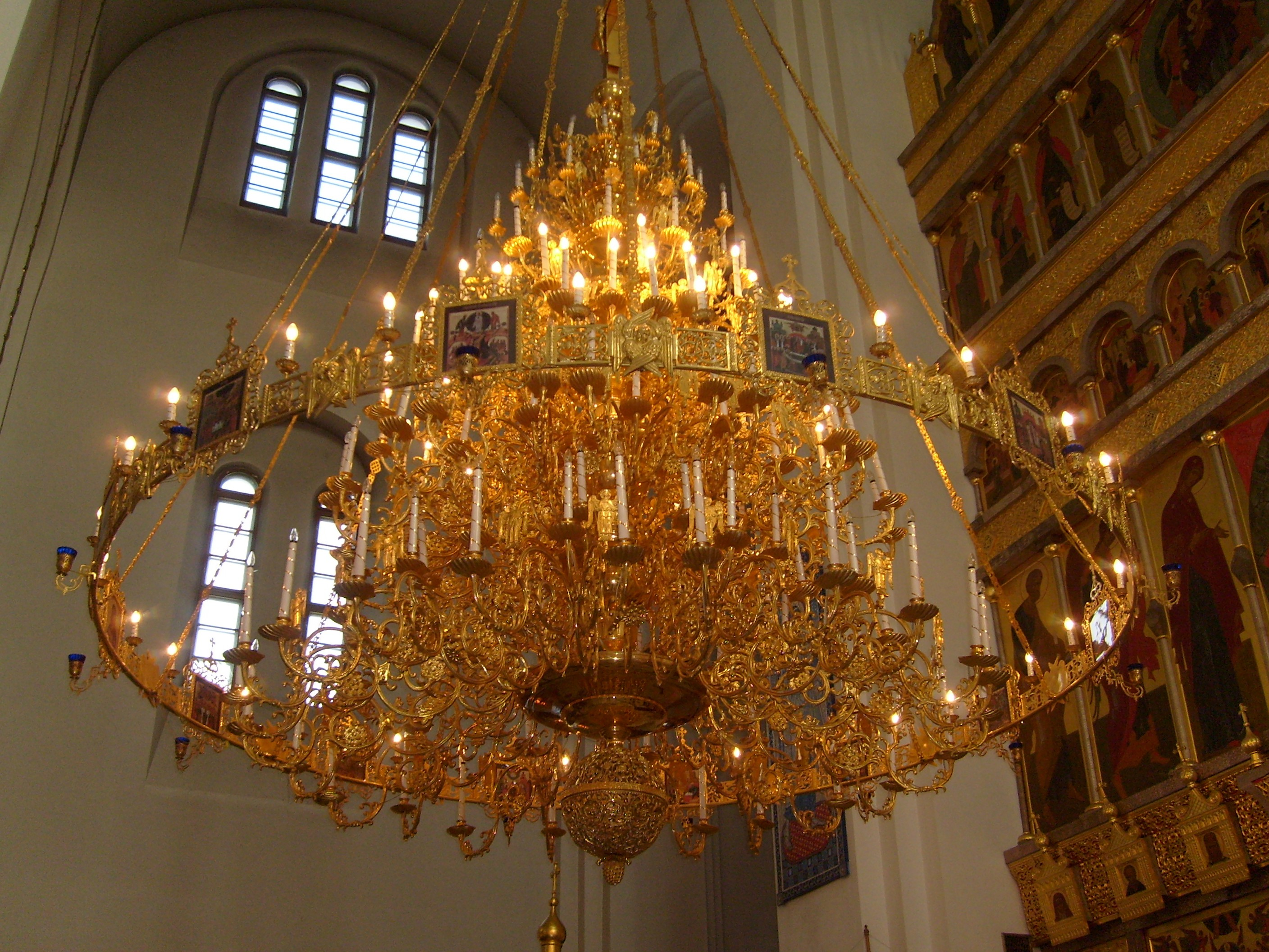 Polykandelon (church chandelier) of Church of the Transfiguration in Tolyatti.